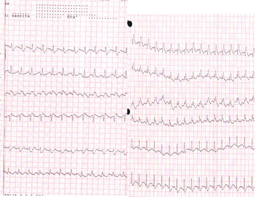 Electrocardiogram of a patient with pulmonary embolism showing sinus tachycardia of approximately 150 beats per minute and right bundle branch block.